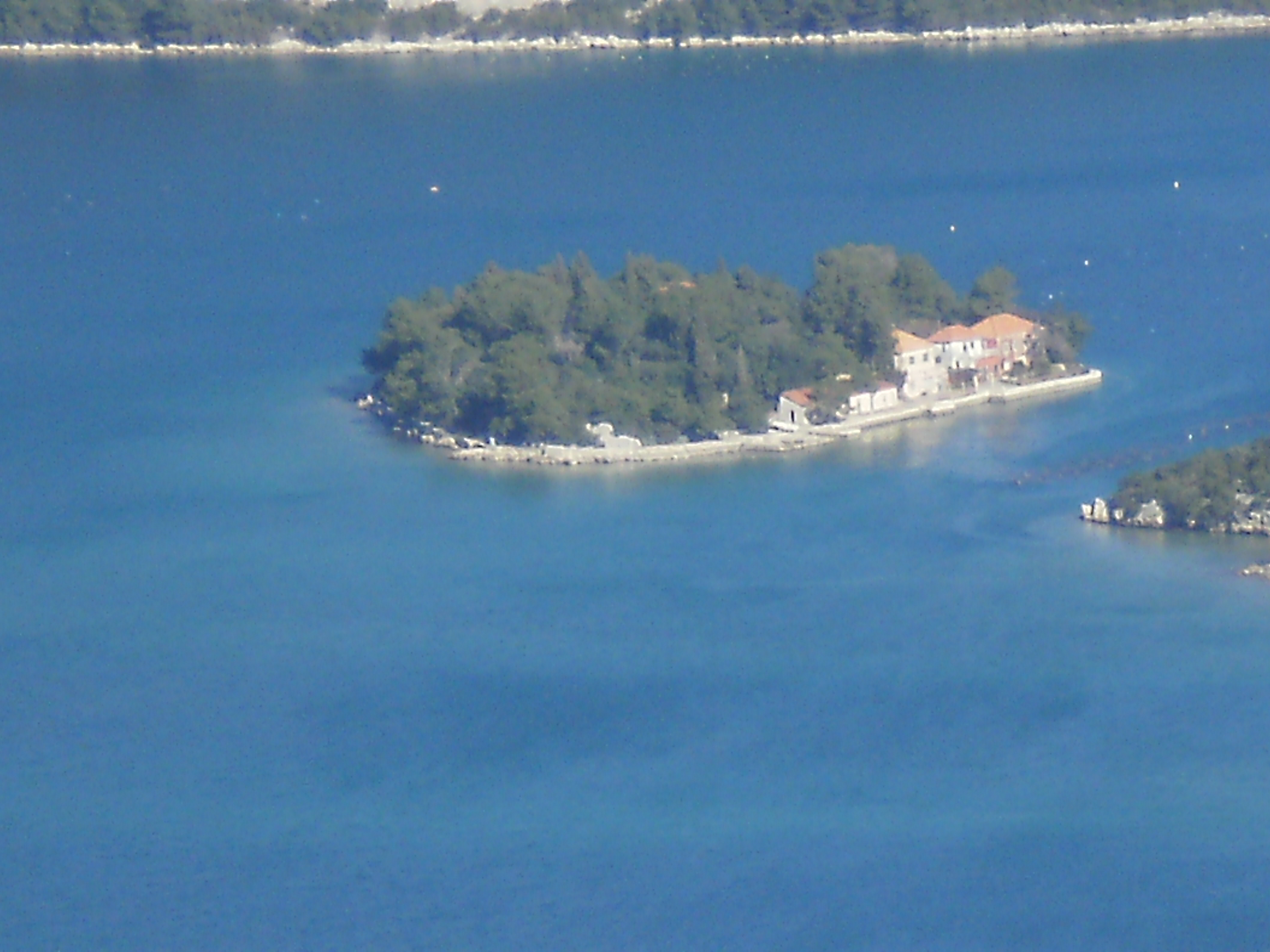 Otok Života OLYMPUS DIGITAL CAMERA